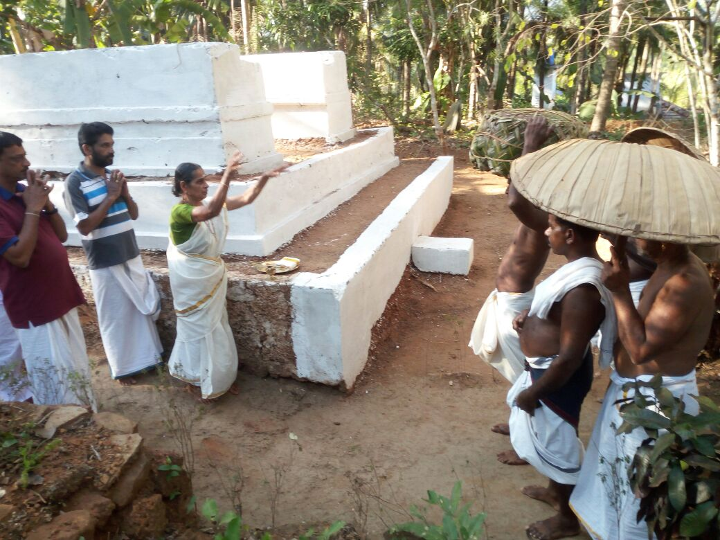 Kattoor Tharavadu Karanavar welcomes Pookkar_ Manjadukkam Thulurvanam. Photo: G. Sivadas Rajapuram